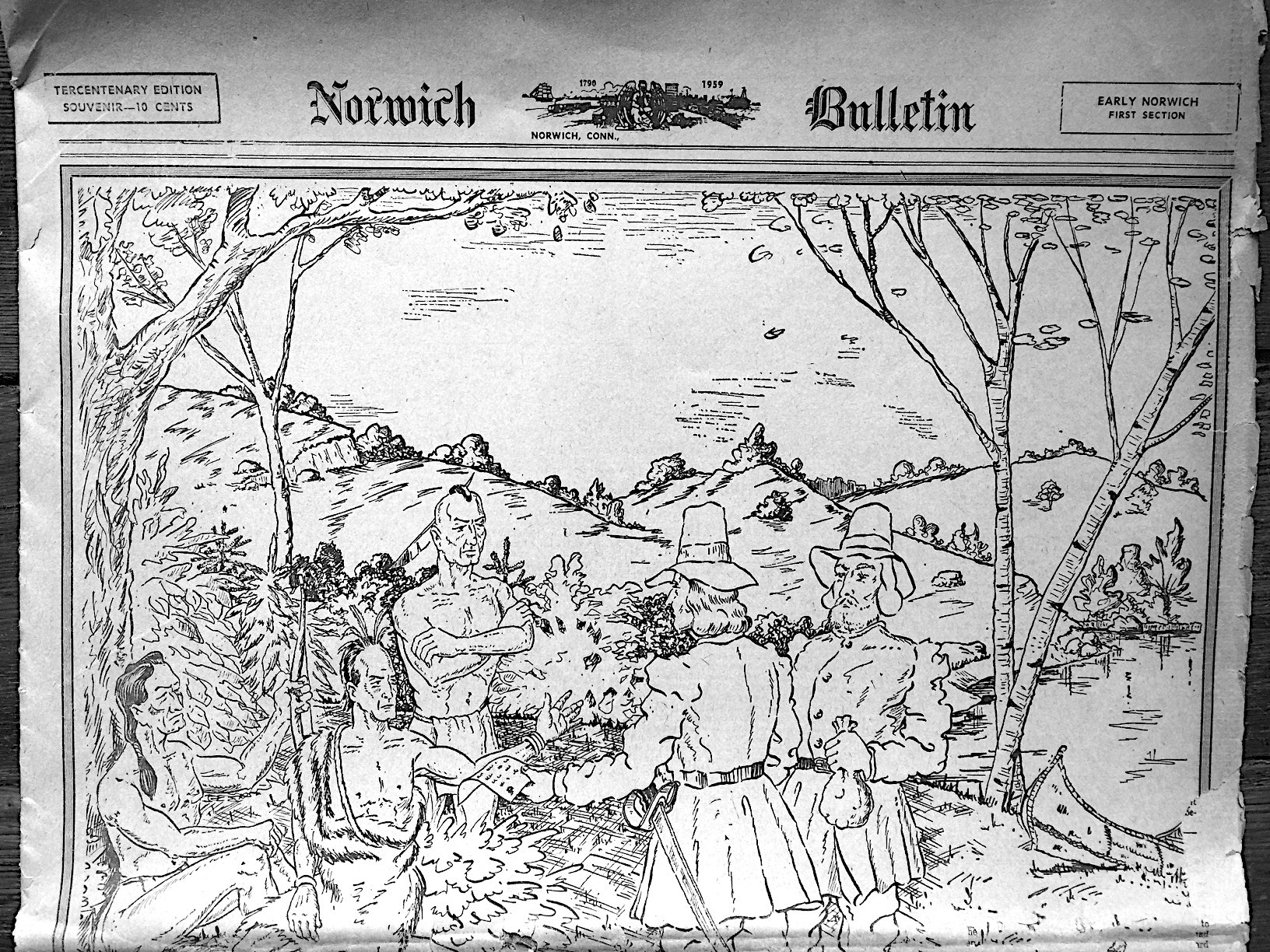 Illustration of John Mason purchasing the Nine Square Miles of Norwichtown from sachem Uncas in 1659